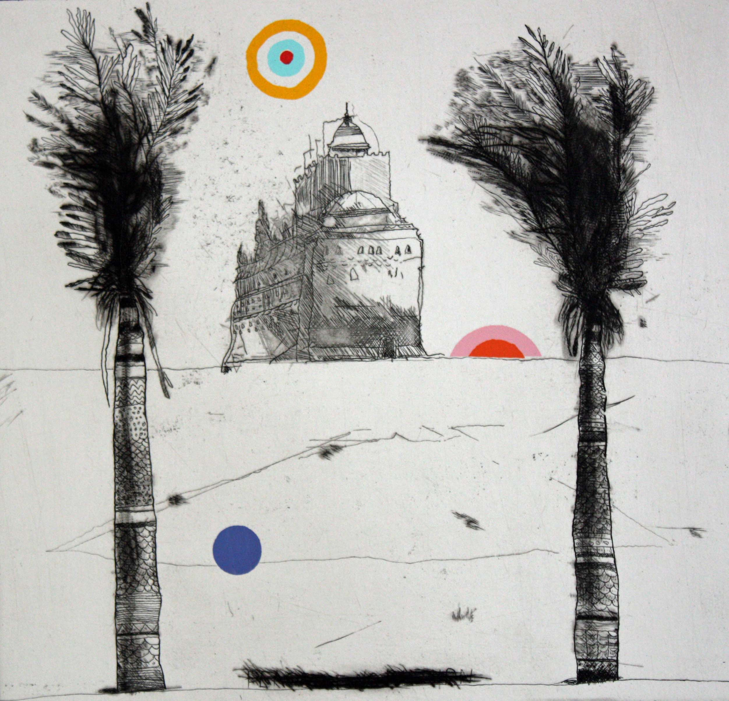 "No return", Screenprinting/etching